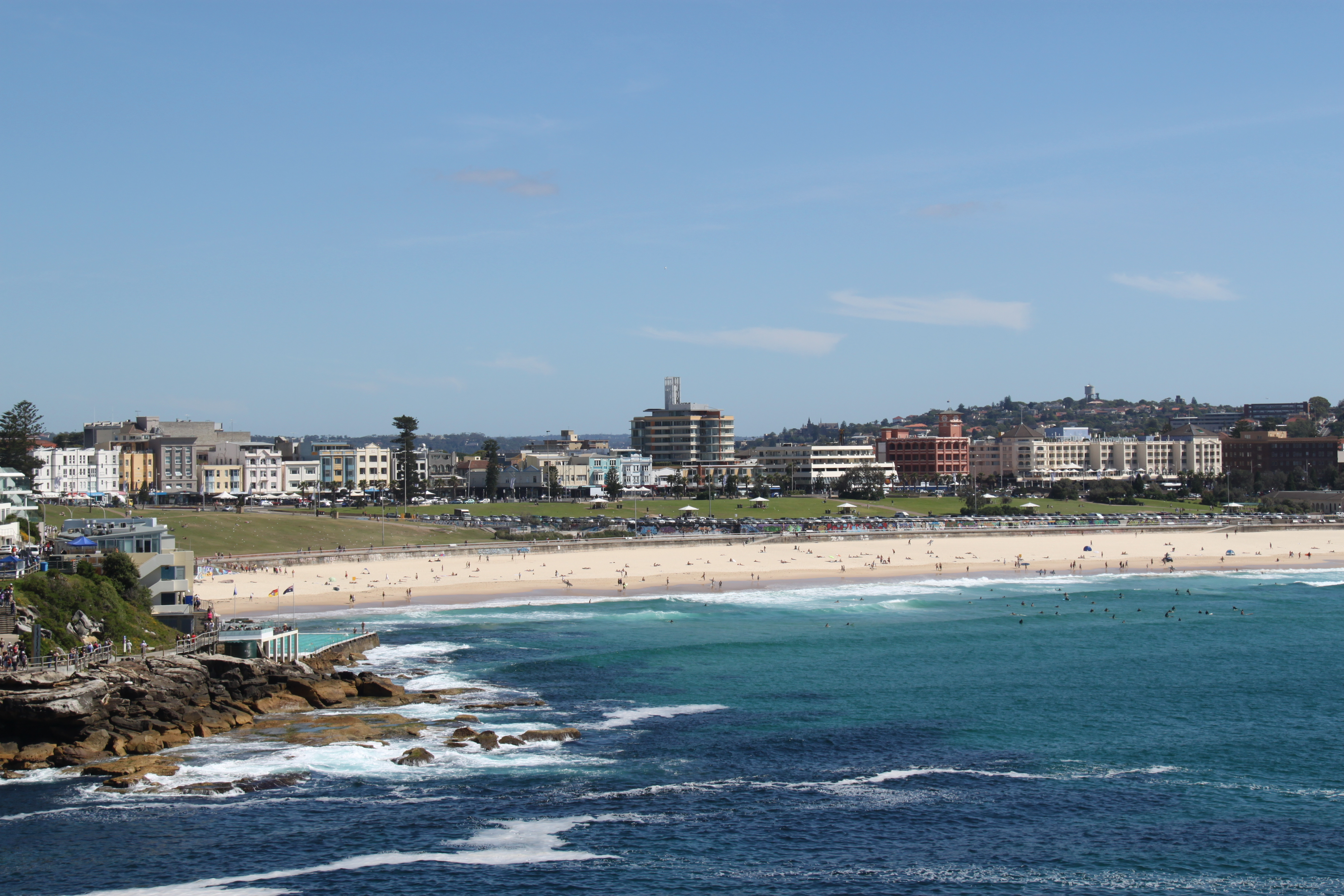 Bondi Beach - 2009